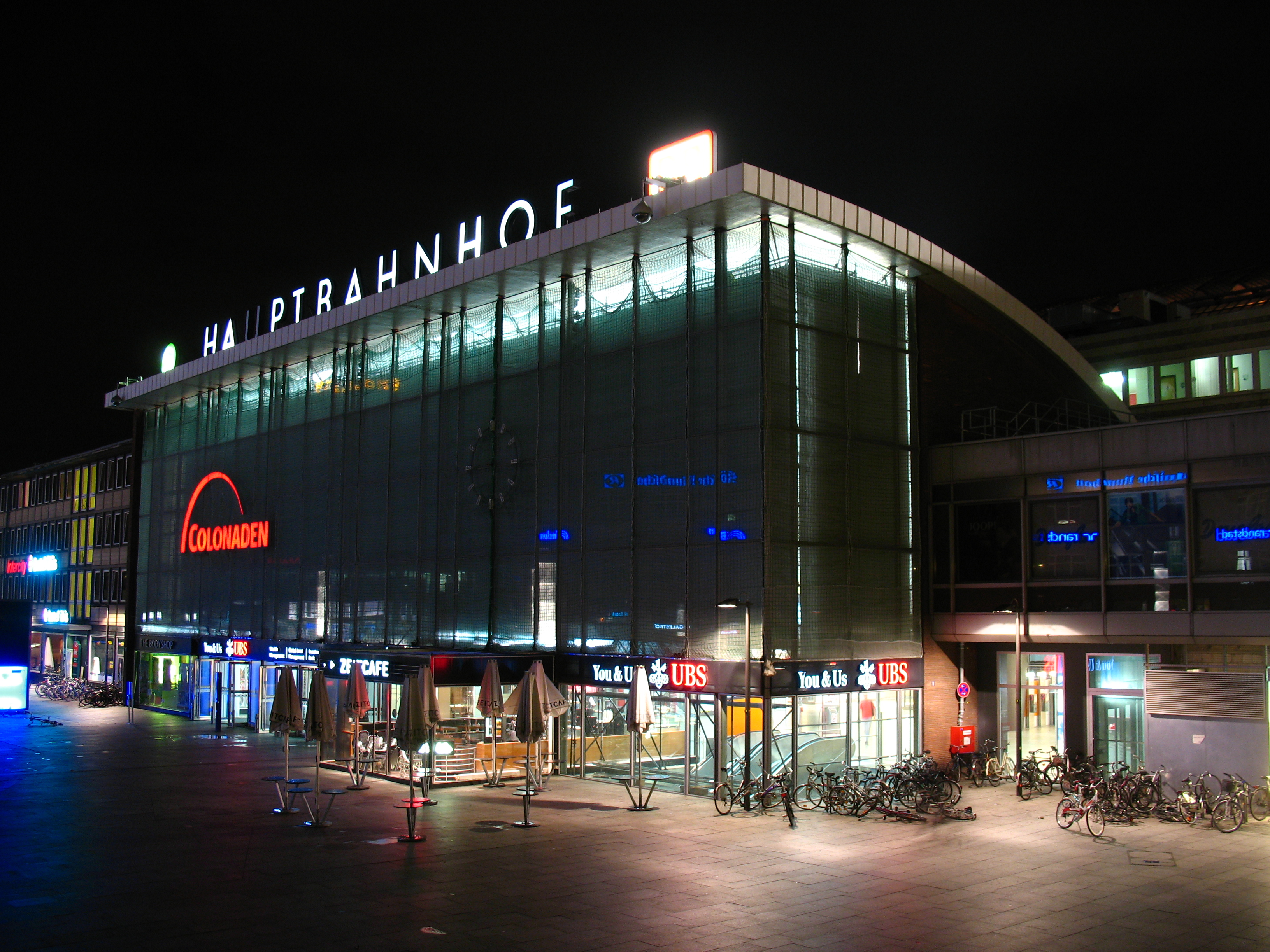 Night view of Köln Hauptbahnhof, Colonia Central Station.